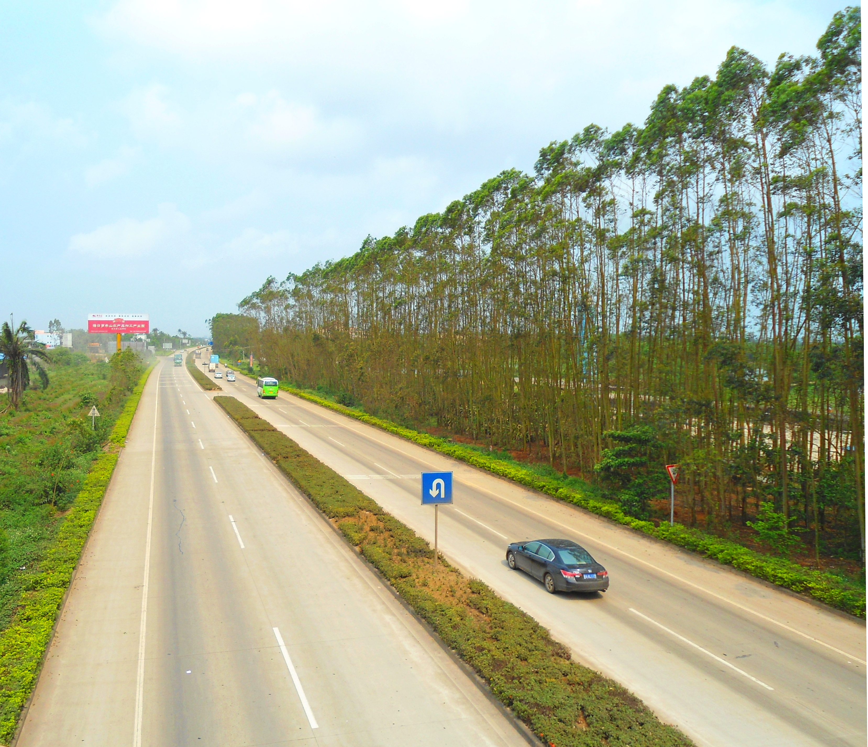 China National Highway 223 viewed facing north from overpass on road connecting Lingshan Town and Guilinyang Town, Hainan Province, People's Republic of China.